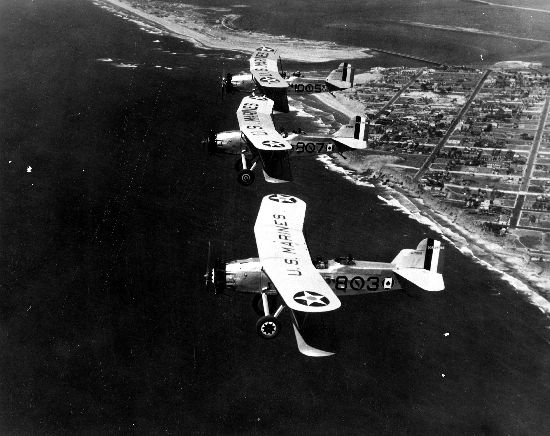 Three Curtiss OC-2s of the United States Marine Corps in flight (1929)